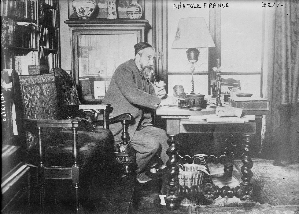 French writer Anatole France (1844–1924) at work.